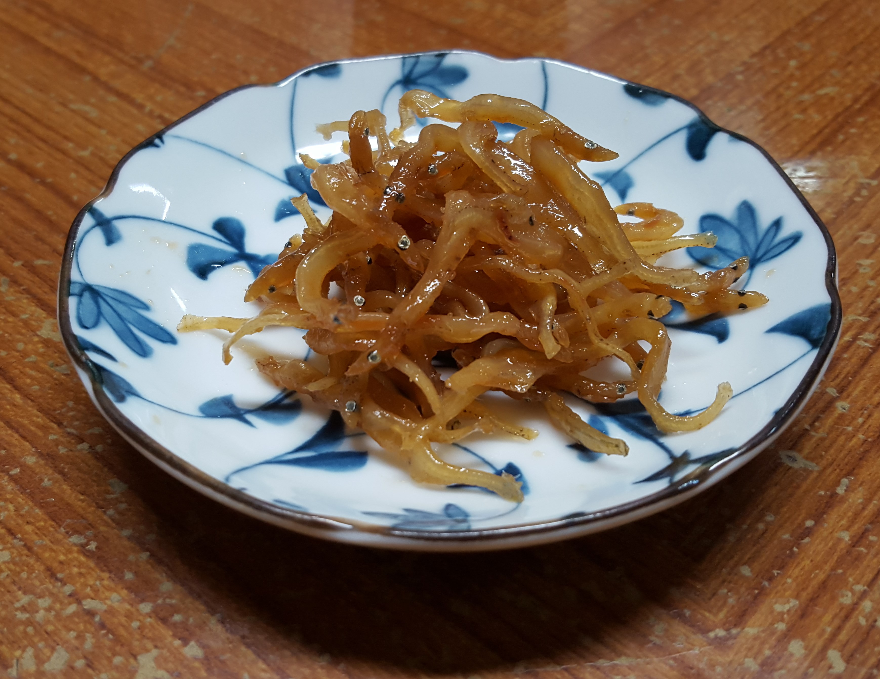 A kind of tsukudani of the Japanese icefish (Salangichthys microdon) in Kuwana, Mie, Japan